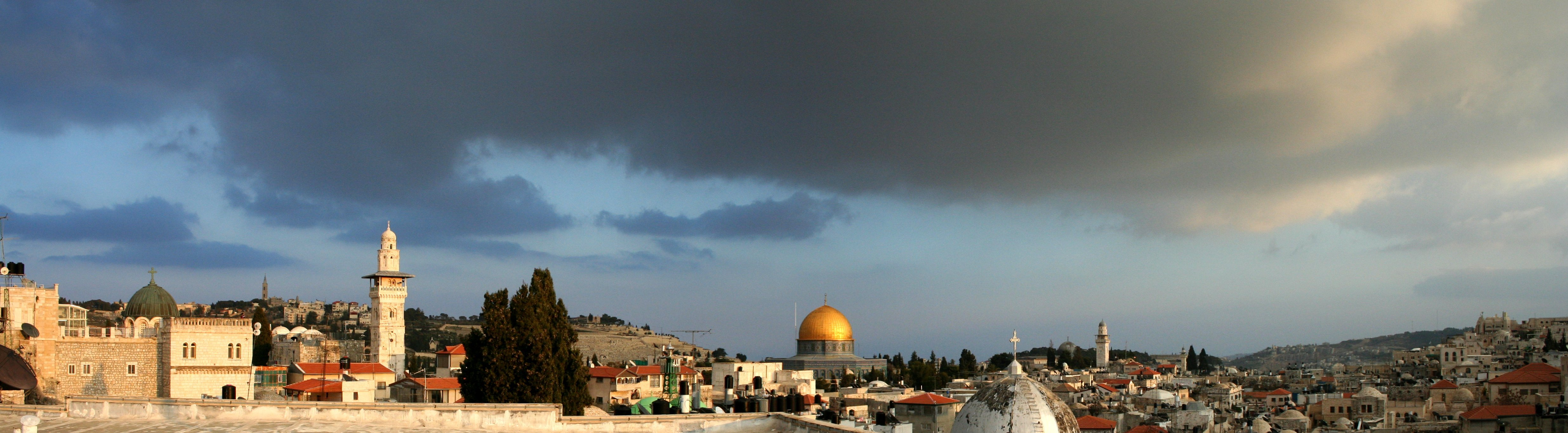 Panoramic View over the Old City Jerusalem from the Austrian Hospice.